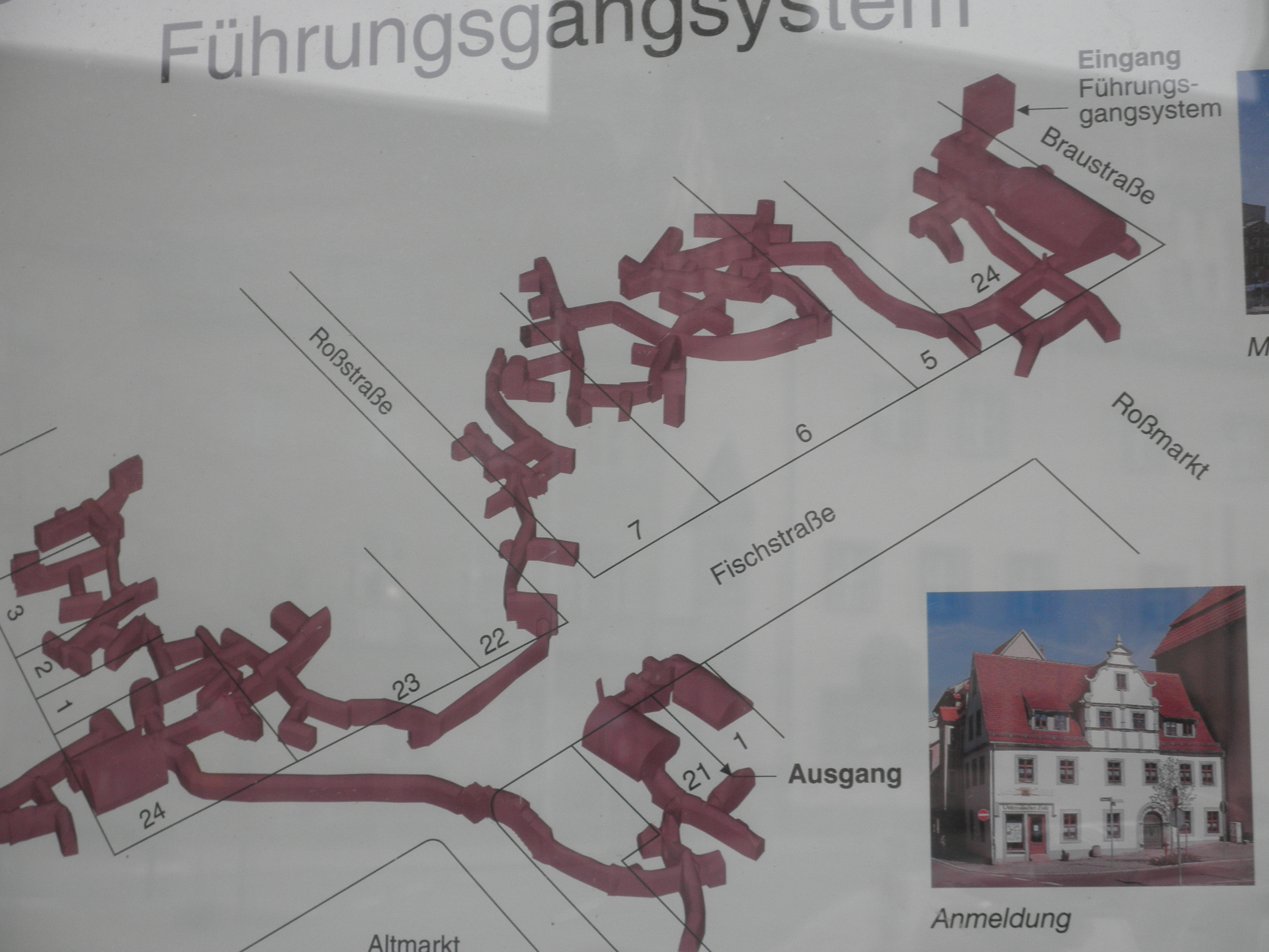 Tiefenkeller in Zeitz in Saxony Anhalt